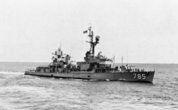 The U.S. Navy Gearing-class destroyer USS Henderson (DD-785) underway in the Gulf of Tonkin, in 1971.